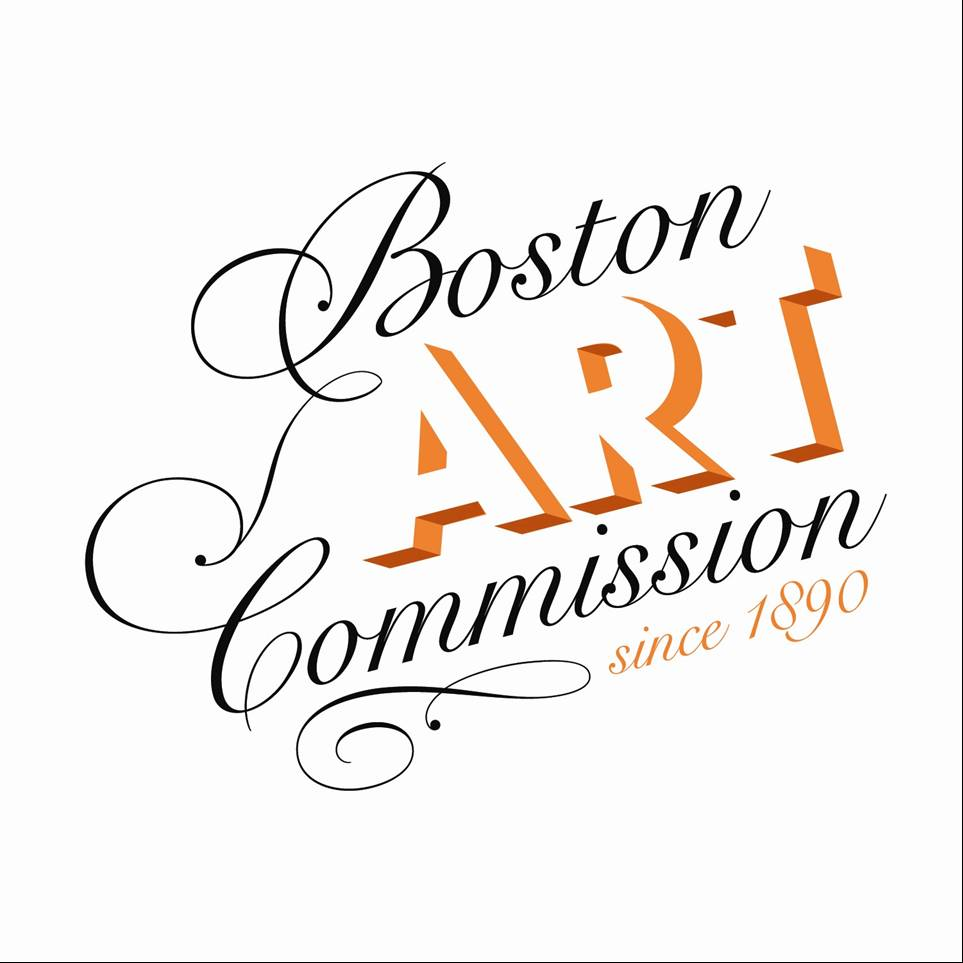 Boston Art Commission's Logo